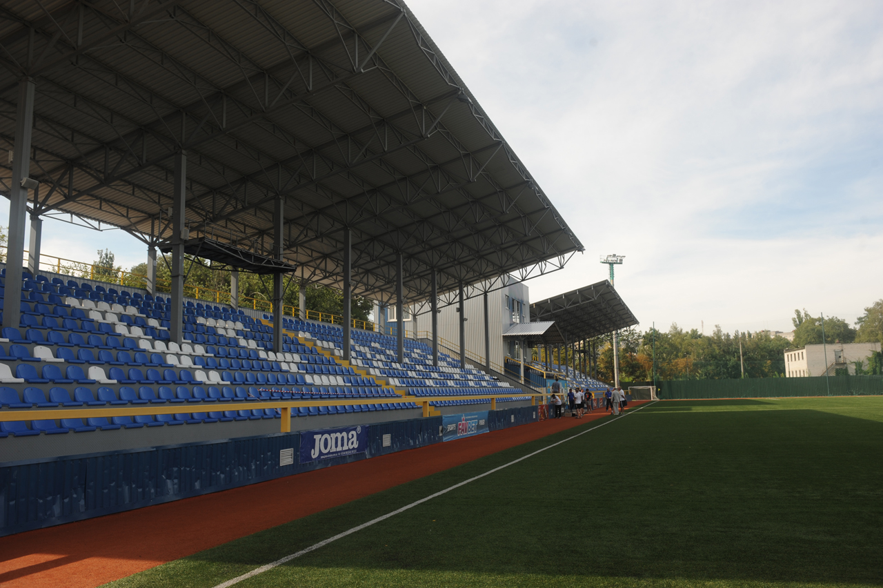 Kremin Arena in Kremenchuk, Poltava Oblast, Ukraine